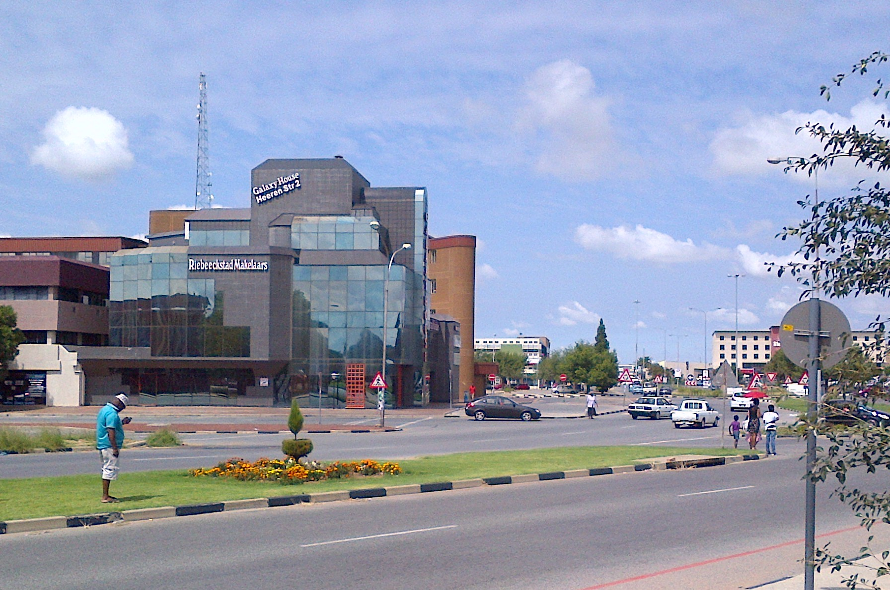 Buiten street looking west Other information nil